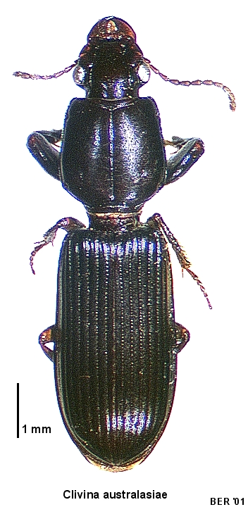 Specimen of Clivina australasiae photographed by Birgit E. Rhode, Landcare Research New Zealand Ltd.